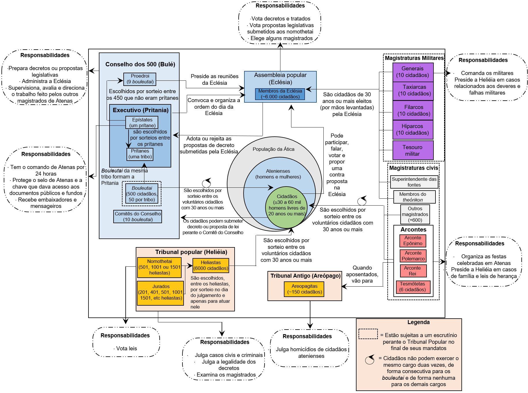 Diagram representing the constitution of the Athenians in the IVth century BC.